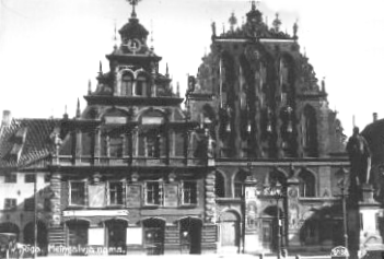 House of the Black Heads at Riga, Latvia, 1920